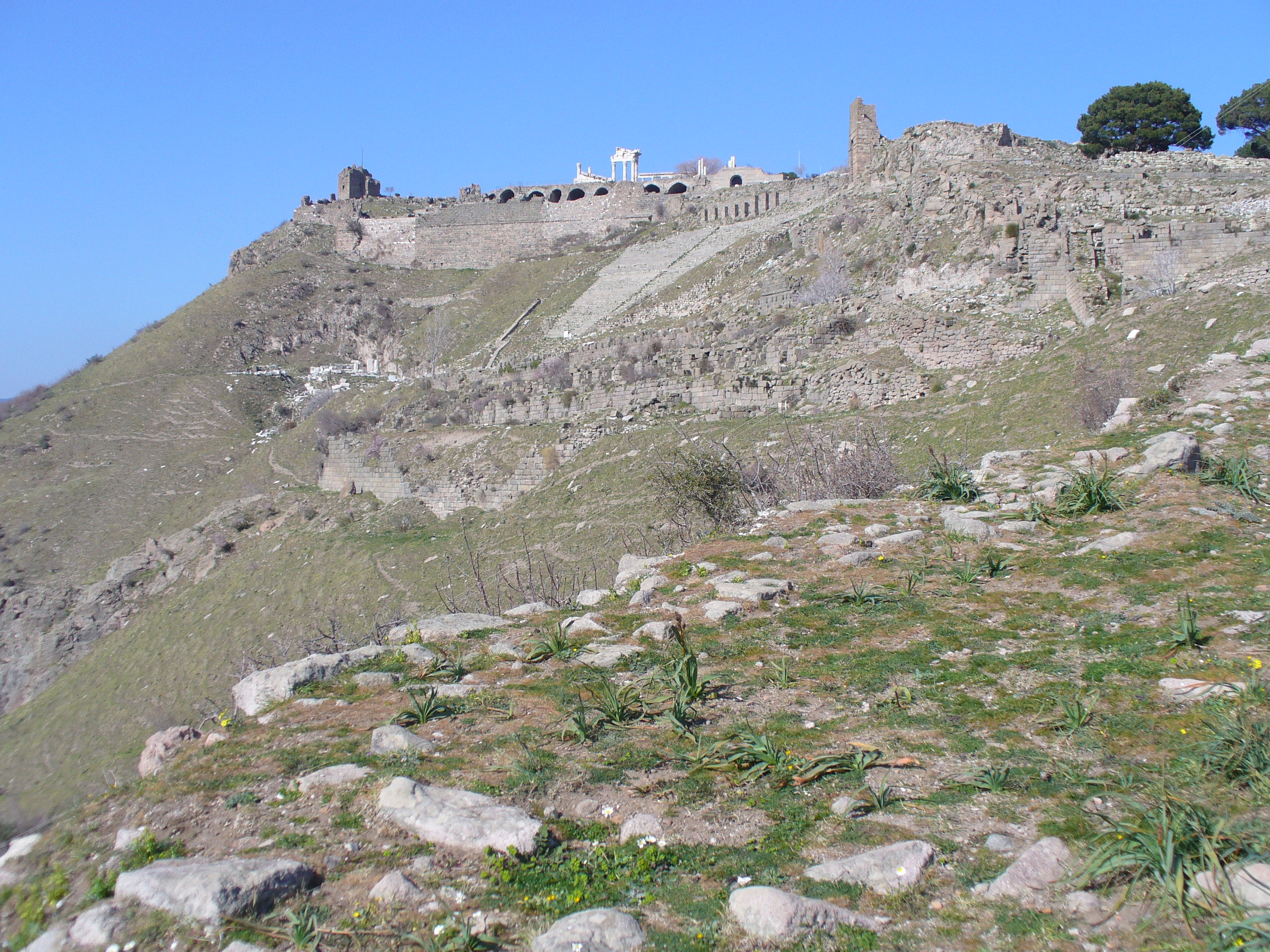 The acropolis of PergamumAcropolis from middle city Pergamum 466